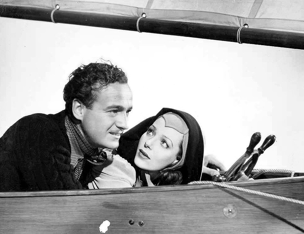 Scene from the 1939 film Eternally Yours. Renewal searches were done in film and artwork for the years 1966 and 1967 There were no listings for the title in film nor any for the title or United Artists in artwork. There's no evidence that copyright continues on the film, artwork or other items related to this film.